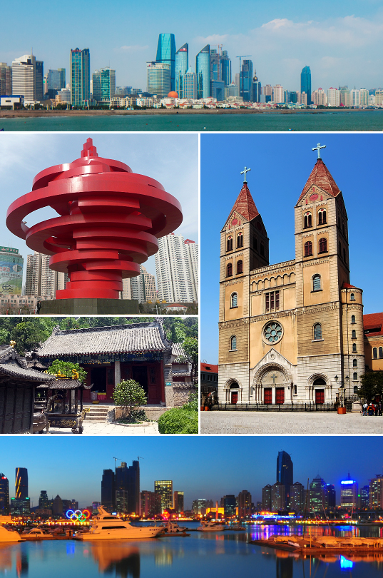 Montage of various landmarks in Qingdao city.